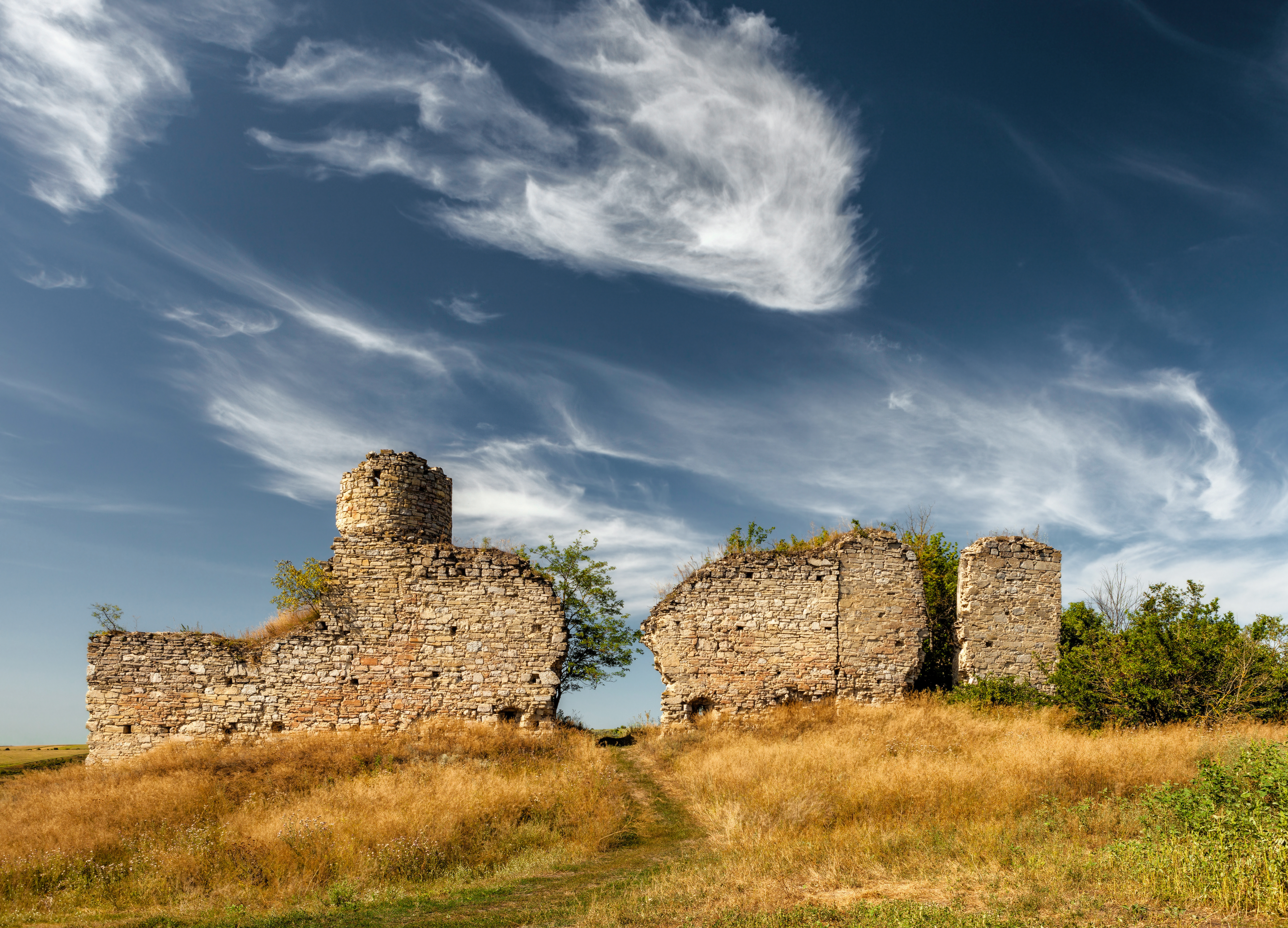 Ruins of Chornokozyntsi Castle, Kamianets-Podilskyi Raion, Khmelnytskyi Oblast, Ukraine